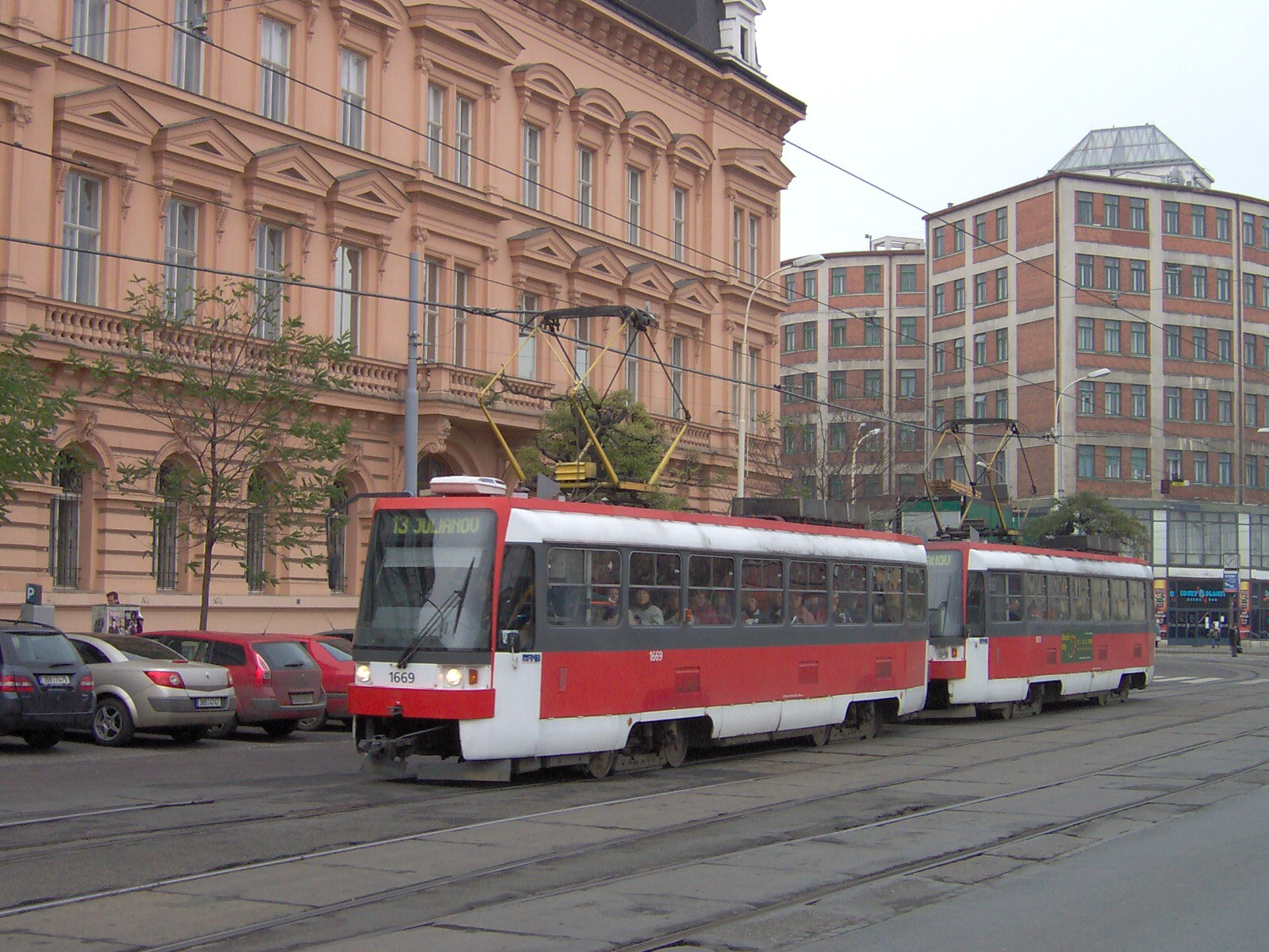 Tatra T3RF trams in Brno, Czech Republic